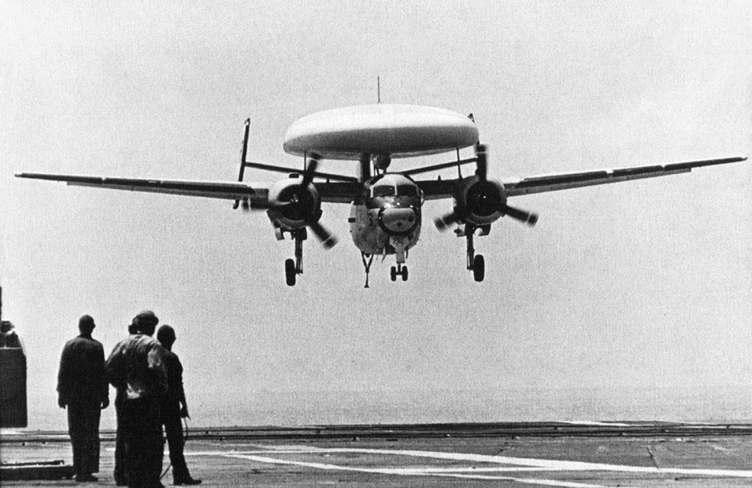 A U.S. Navy Grumman E-1B Tracer from Carrier Airborne Early Warning Squadron 111 (VAW-111) Det.20 "Hunters" lands aboard the aircraft carrier USS Bennington (CVS-20). VAW-111 Det.20 was assigned to Carrier Anti-Submarine Air Group 59 (CVSG-59) aboard the Bennington for a deployment to the Western Pacific and Vietnam from 30 April to 9 November 1968.